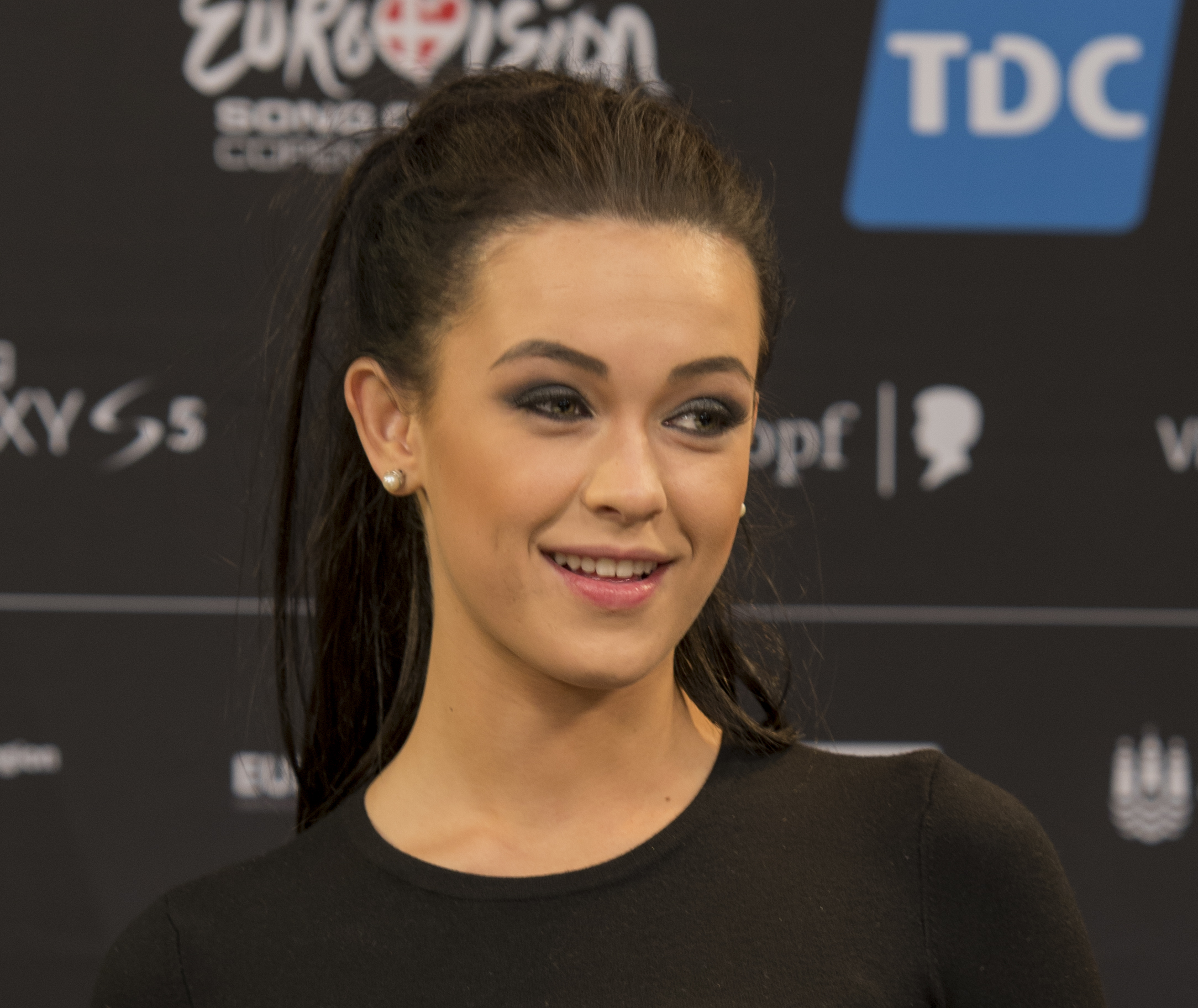 Mariya Yaremchuk at a Meet & Greet during the Eurovision Song Contest 2014 Copenhagen. (Help translate this text)